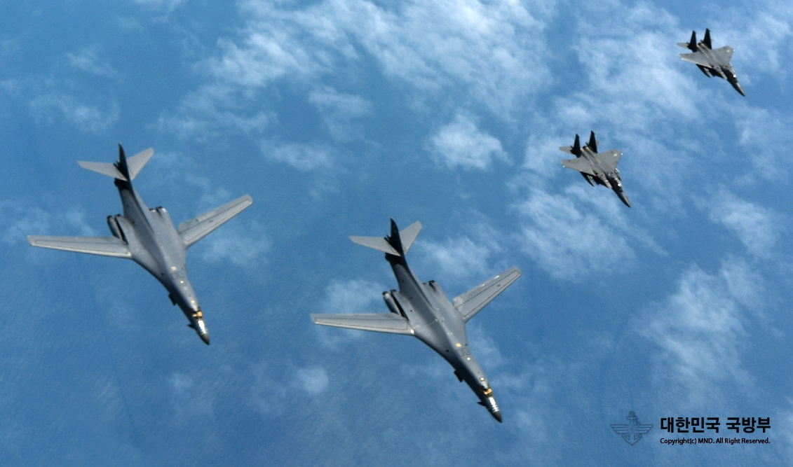 U.S. Air Force B-1B Lancers assigned to the 9th Expeditionary Bomb Squadron, deployed from Dyess Air Force Base, Texas, fly with South Korean F-15 fighter jets over the Korean Peninsula, July 7. The Lancers departed Andersen Air Force Base, Guam to conduct a sequenced bilateral mission with South Korean F-15s and Koku Jieitai (Japan Air Self-Defense Force) F-2 fighter jets. The mission is in response to a series of increasingly escalatory action by North Korea, including a launch of an intercontinental ballistic missile (ICBM) on July 3.